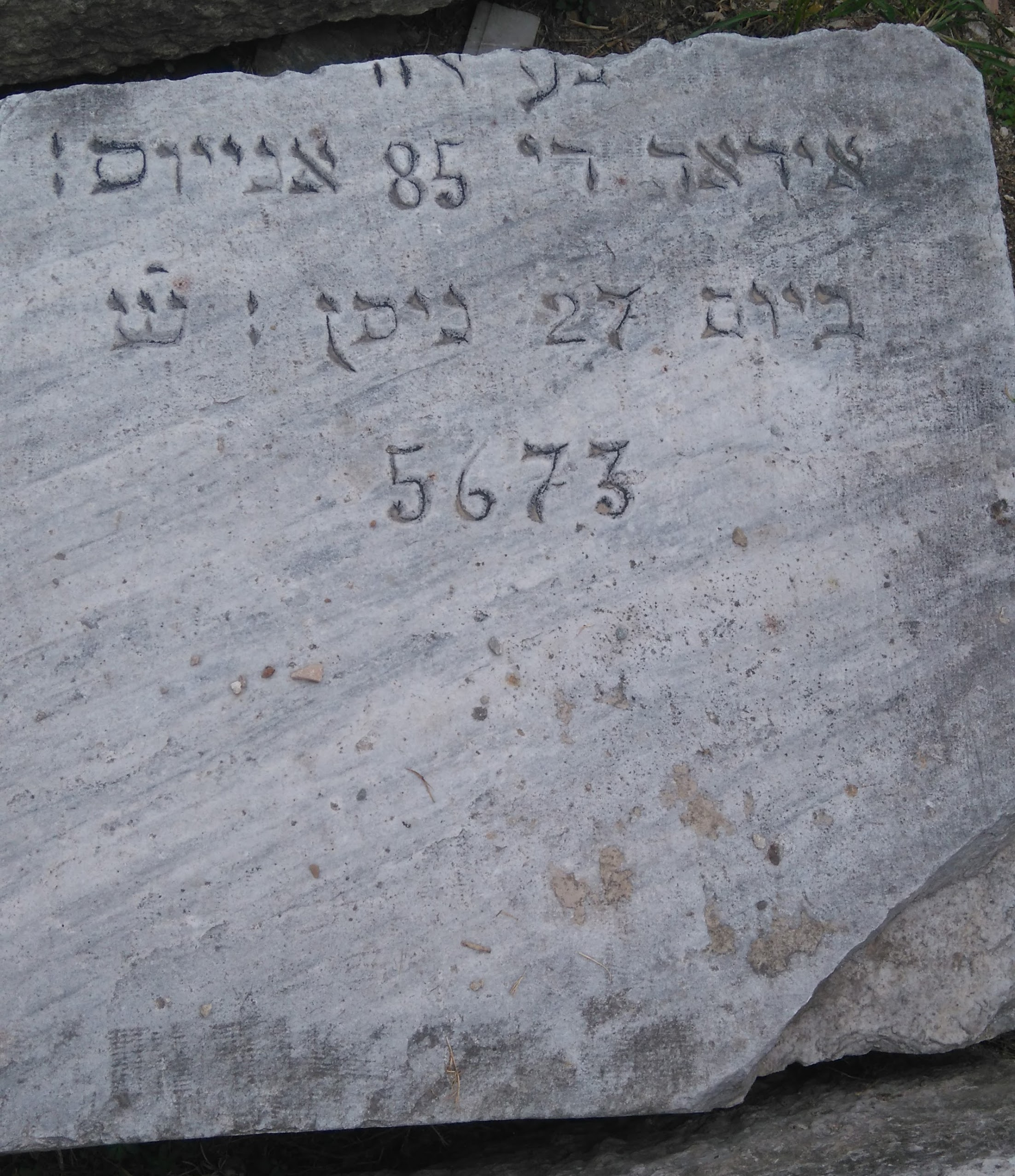 A gravestone with hebrew inscription in Thessaloniki, Greece. Year 5673 Anno Mundi is ~1913 AD.